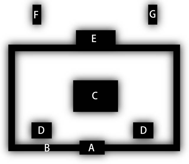 Plan of Yakushiji Temple. 薬師寺伽藍配置図A:中門 B:回廊 C:金堂 D:塔 E:講堂 F:鐘楼 G:経蔵